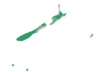 Aporostylis distribution map